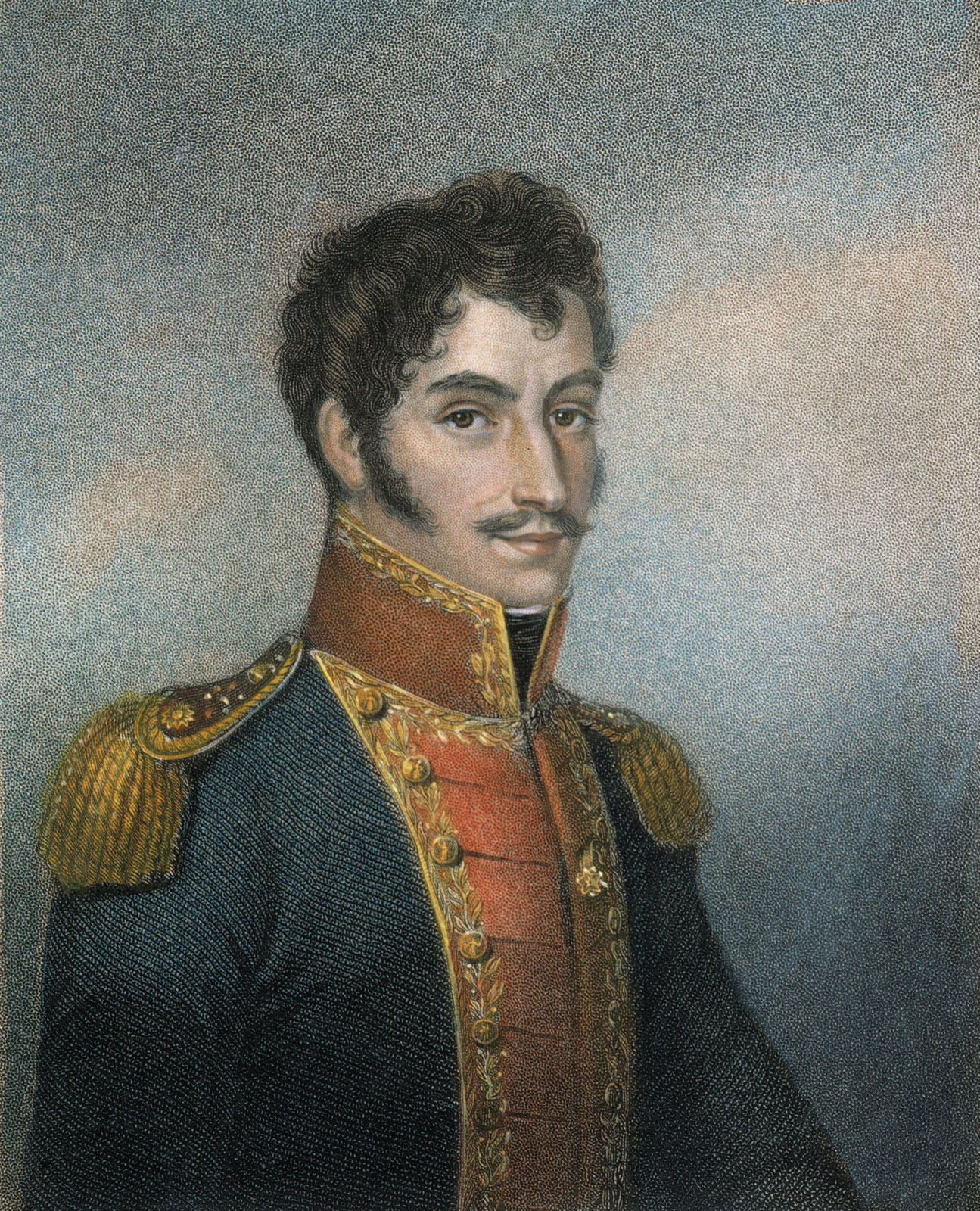 Simón Bolívar engraved by M.N. Bate.